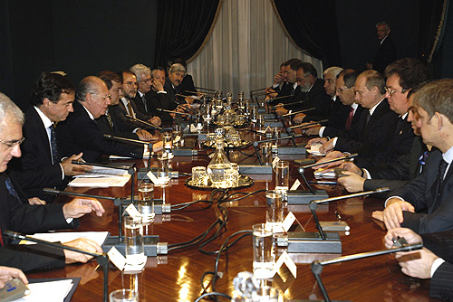 SANTIAGO, CHILE. Russian-Chilean negotiations.